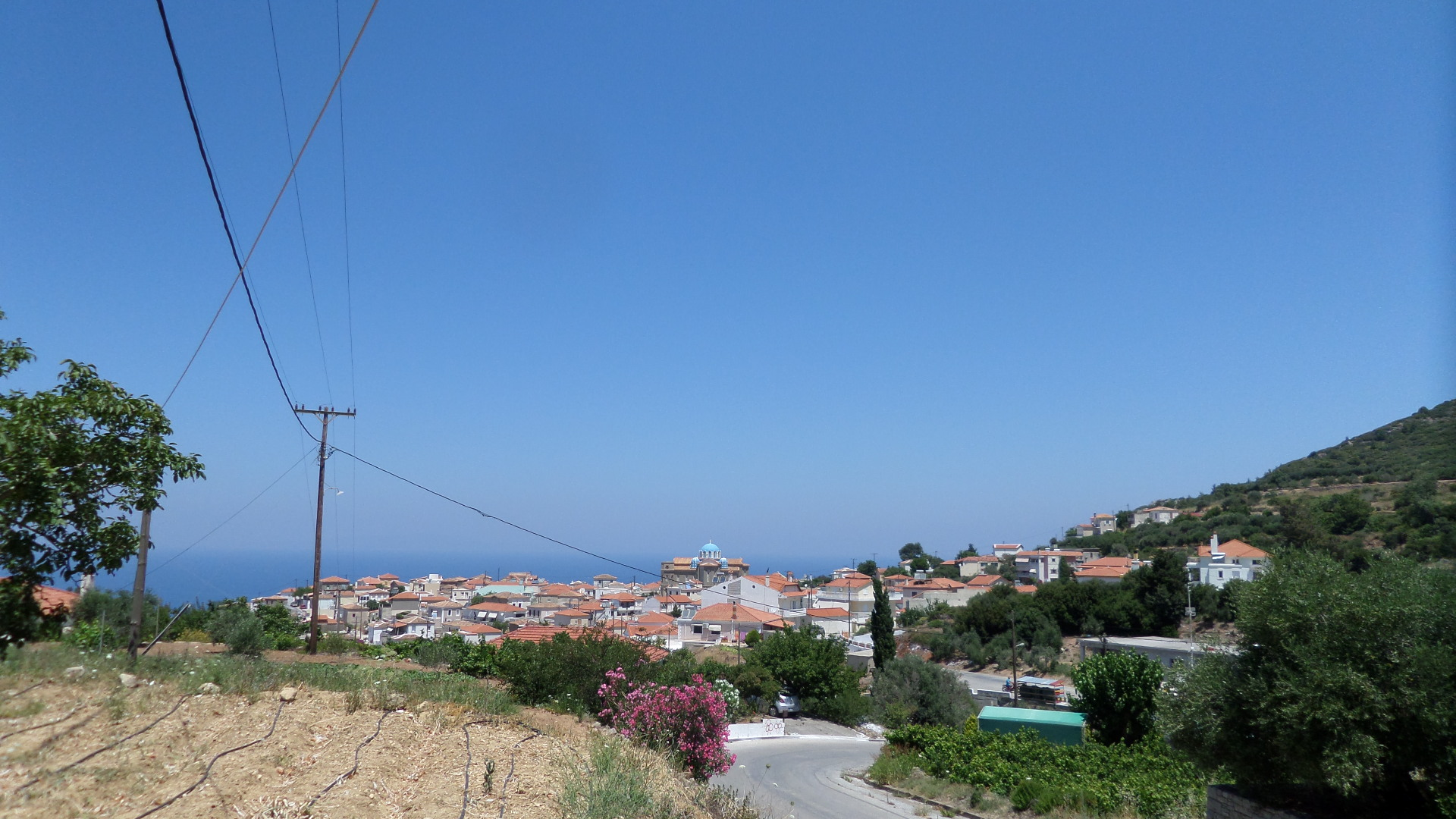 A brief view of the village